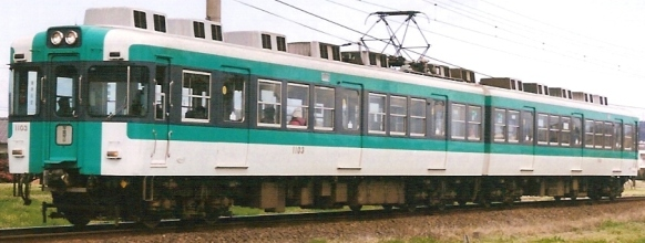 Takamatsu-Kotohira Electric Railroad No. 1103 running between Okamoto and Enza